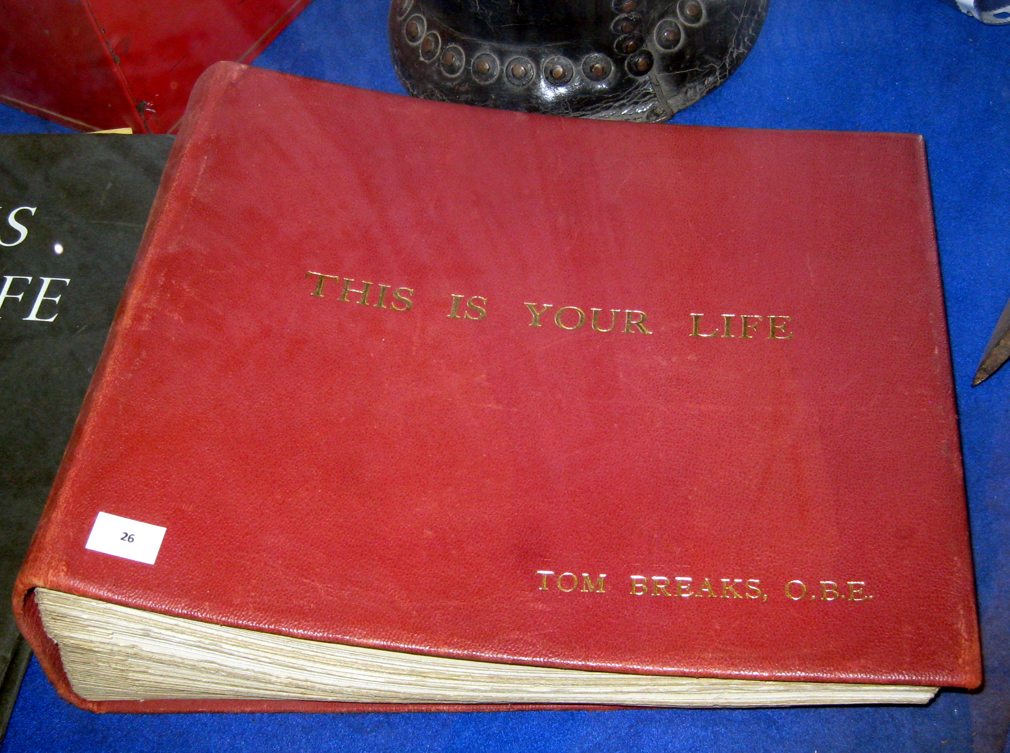 The Big Red Book used in the UK TV series "This is Your Life". For Tom Breaks, OBE. Broadcast on Mon 26 Mar 1962. On display in the National Emergency Services Museum, Sheffield